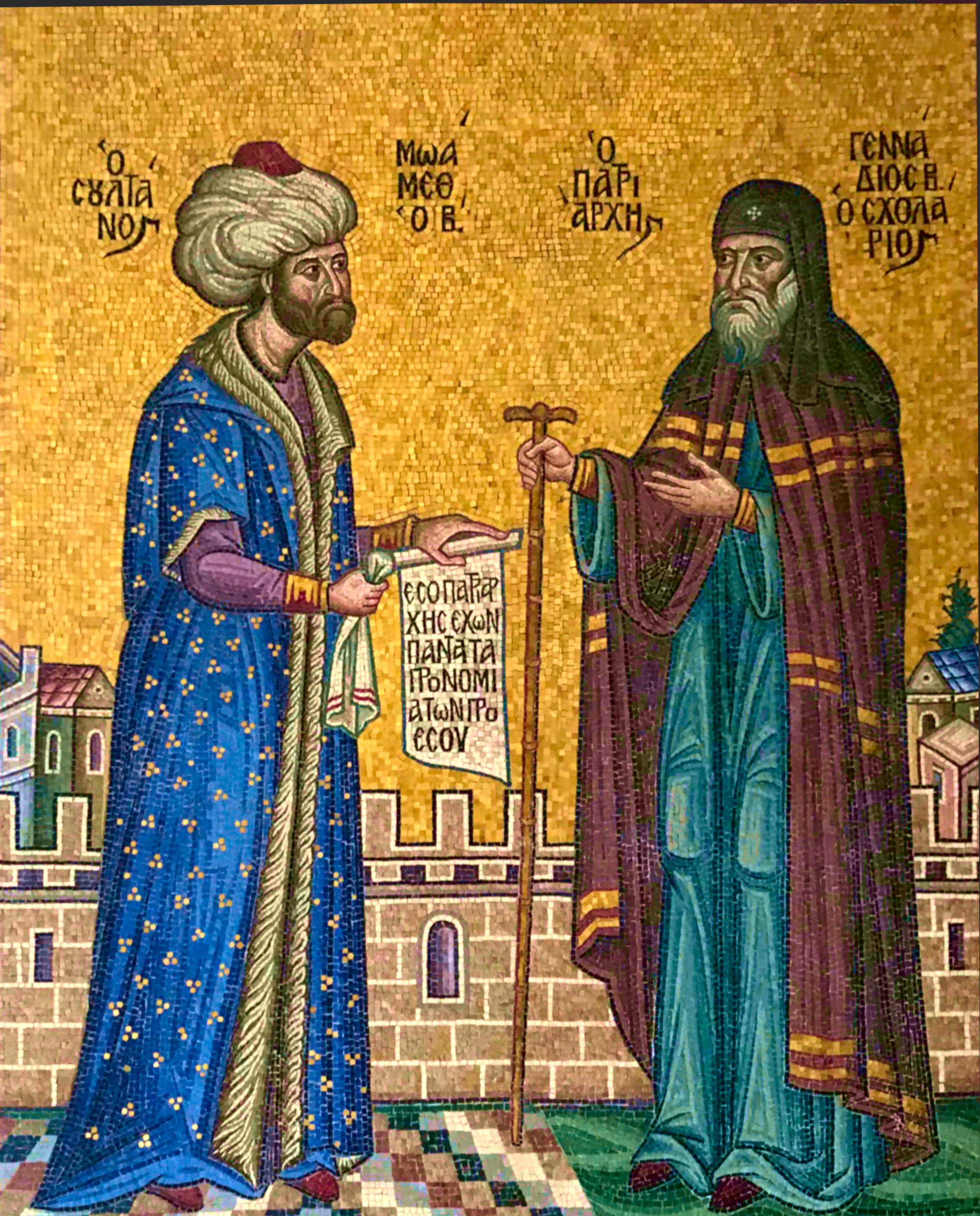 Gennadios Scholarios with Mehmet II